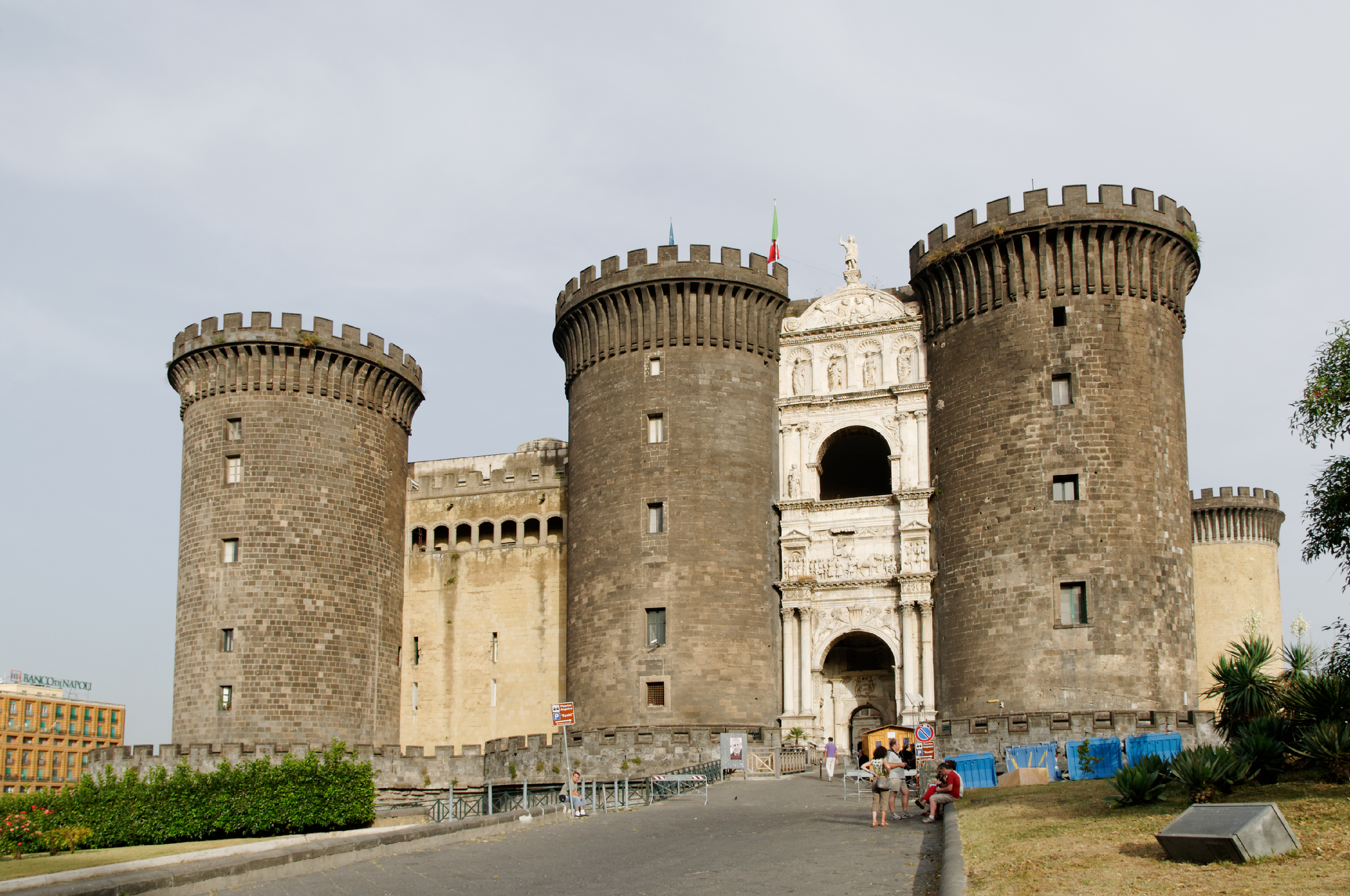 Castel Nuovo, Naples.